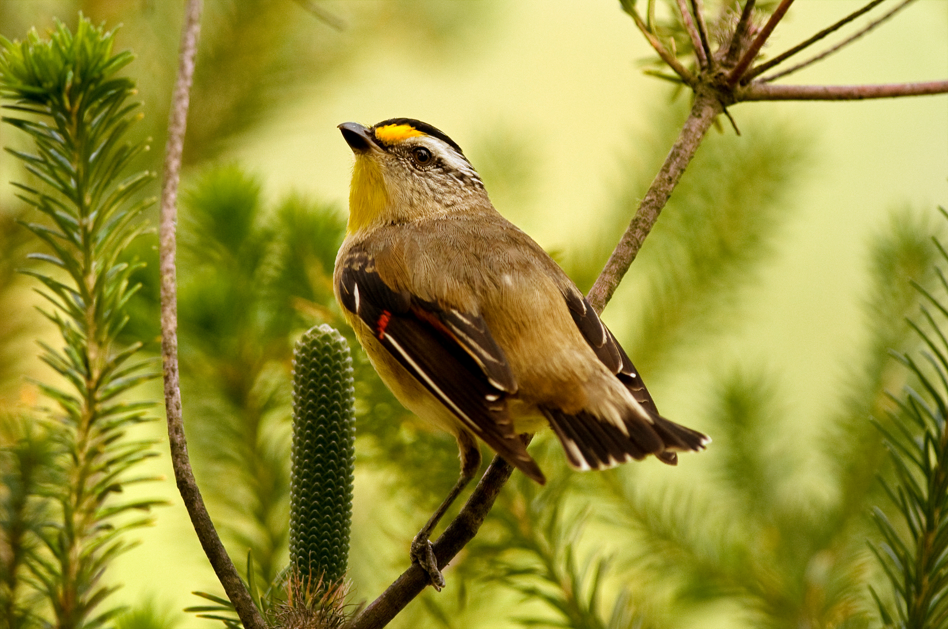 Striated Pardalote (Pardalotus striatus), Jamieson, Victoria